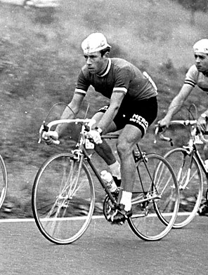 Barry Hoban (GB - Mercier - 3rd from left) keeps a watchful eye on Eddy Merckx (Belgium - Peugeot - left) as the pro World Championship bunch complete yet another lap of the Nürburgring in Germany (August 1966). The young Merckx went on to finish 35 secs down in 12th place - just behind Felice Gimondi. Only 22 pros were credited with finishing - none from GB.